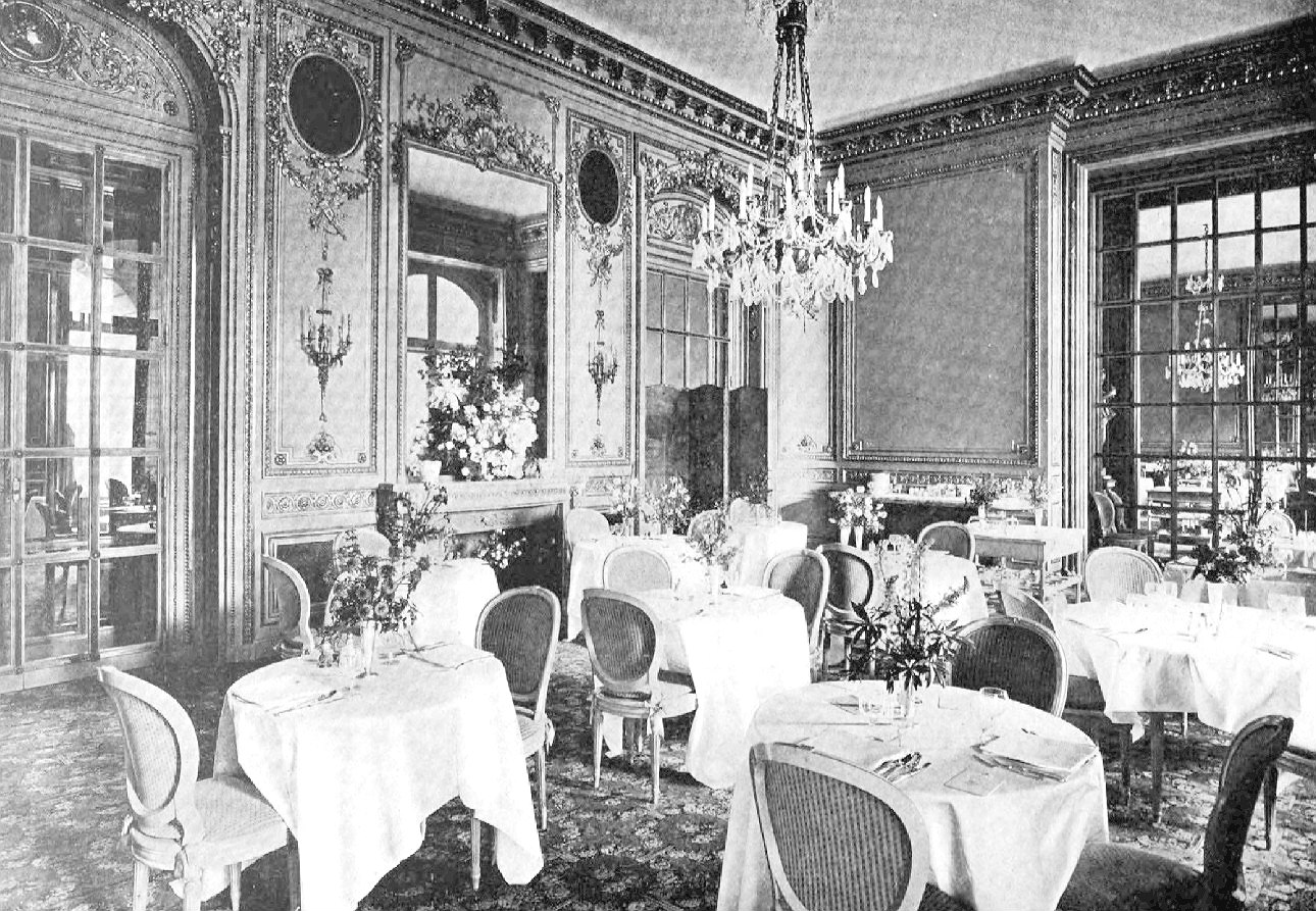 Photo of a private dining room of the Ritz Hotel, London.